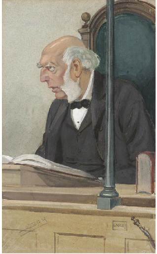 Caricature of Robert Henry Bullock-Marsham (1833-1913). Caption read "Bow Street". Accompanying biography in Vanity Fair read "Young men and women who have strayed from the path of honesty have received at his hands an opportunity to reform, and his kindly words of warning advice have often had a far greater effect in checking a criminal career than would a hefty sentence.... He never displays the least sign of anger, and he favours no-one".